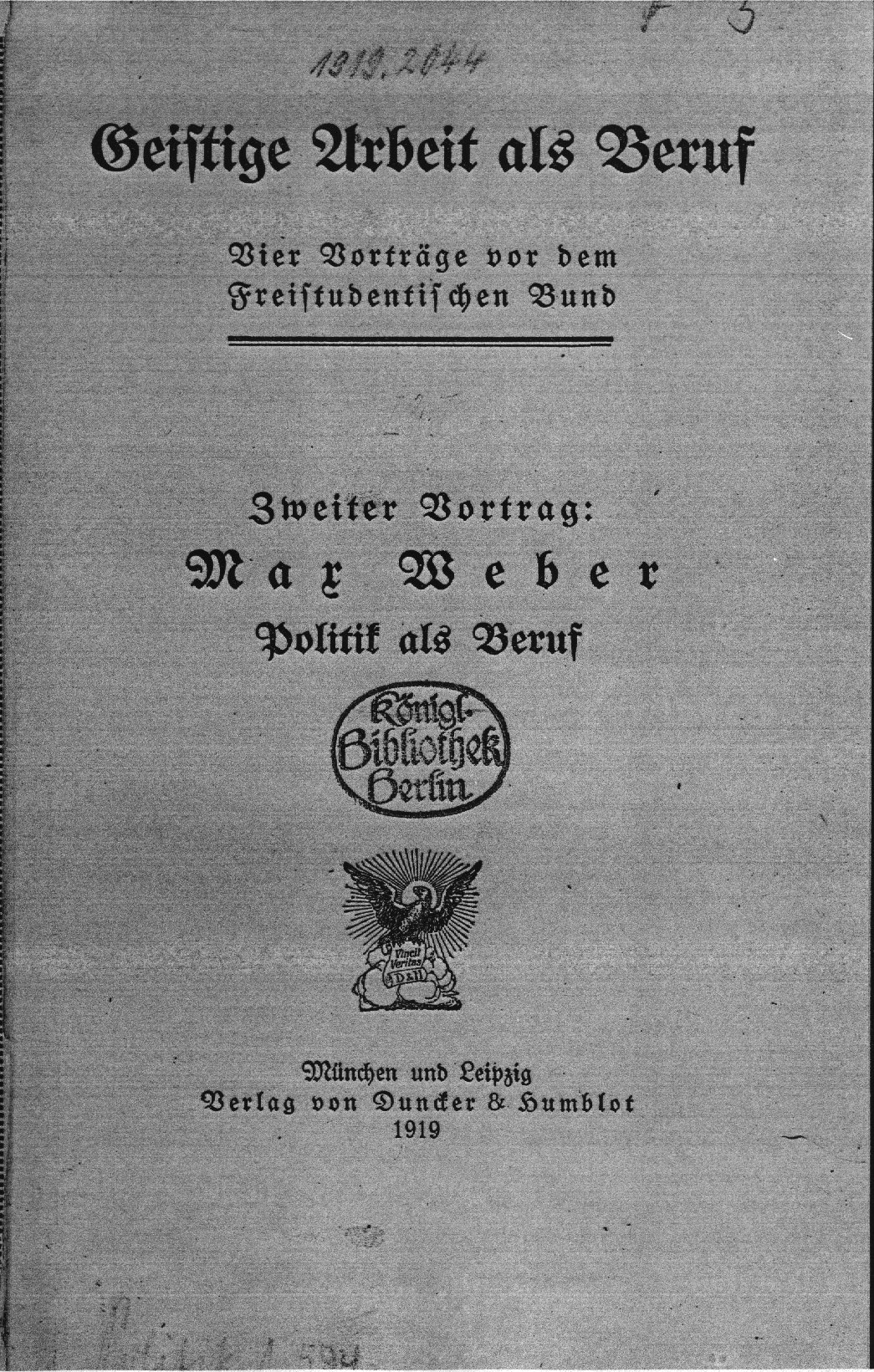 This is a scan of the historical document